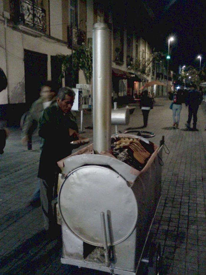 Vending cart (bananas and sweet potatoes) in downtown Mexico City.